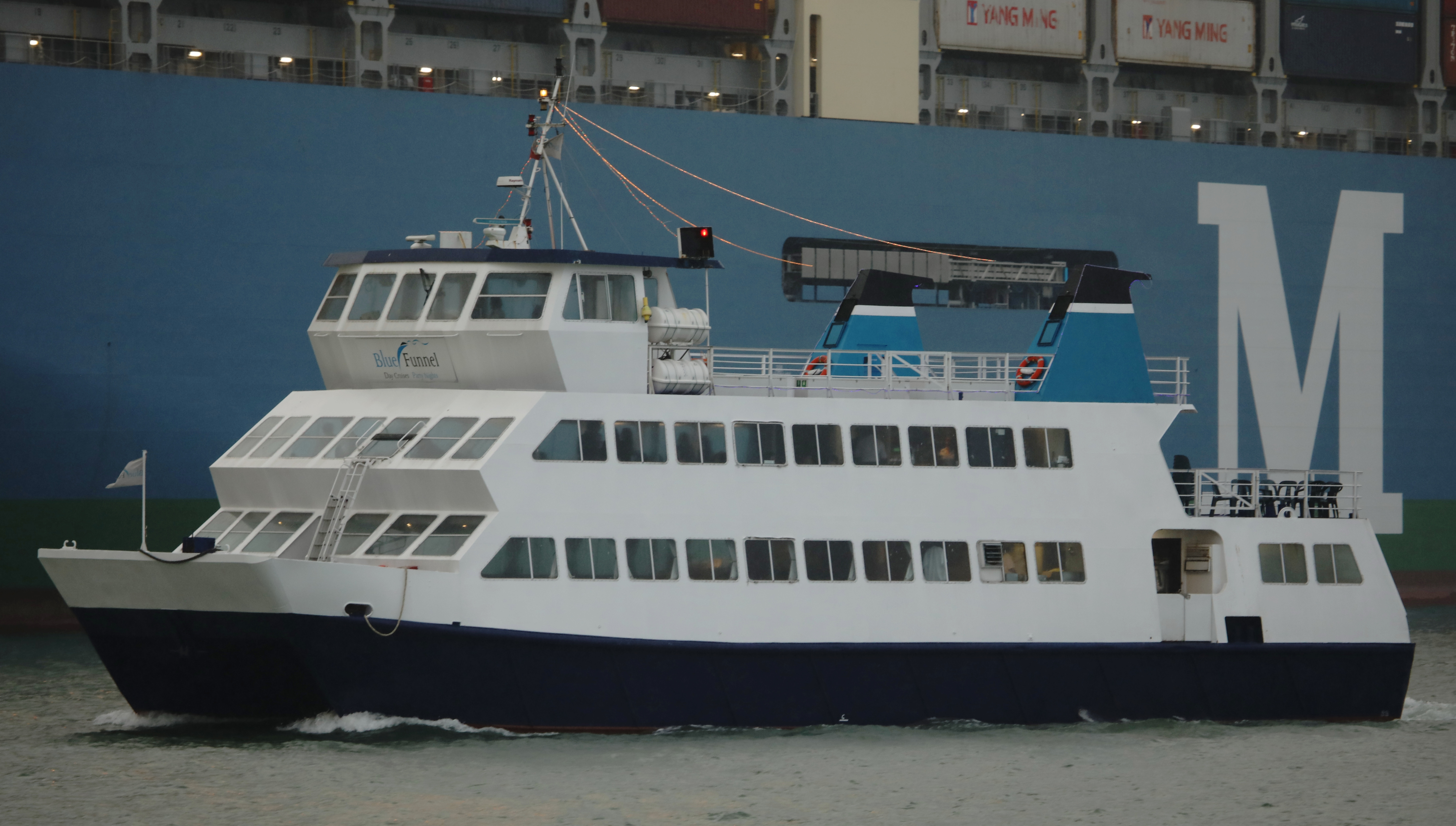 Photo of MV Ocean Scene with MOL Triumph behind it